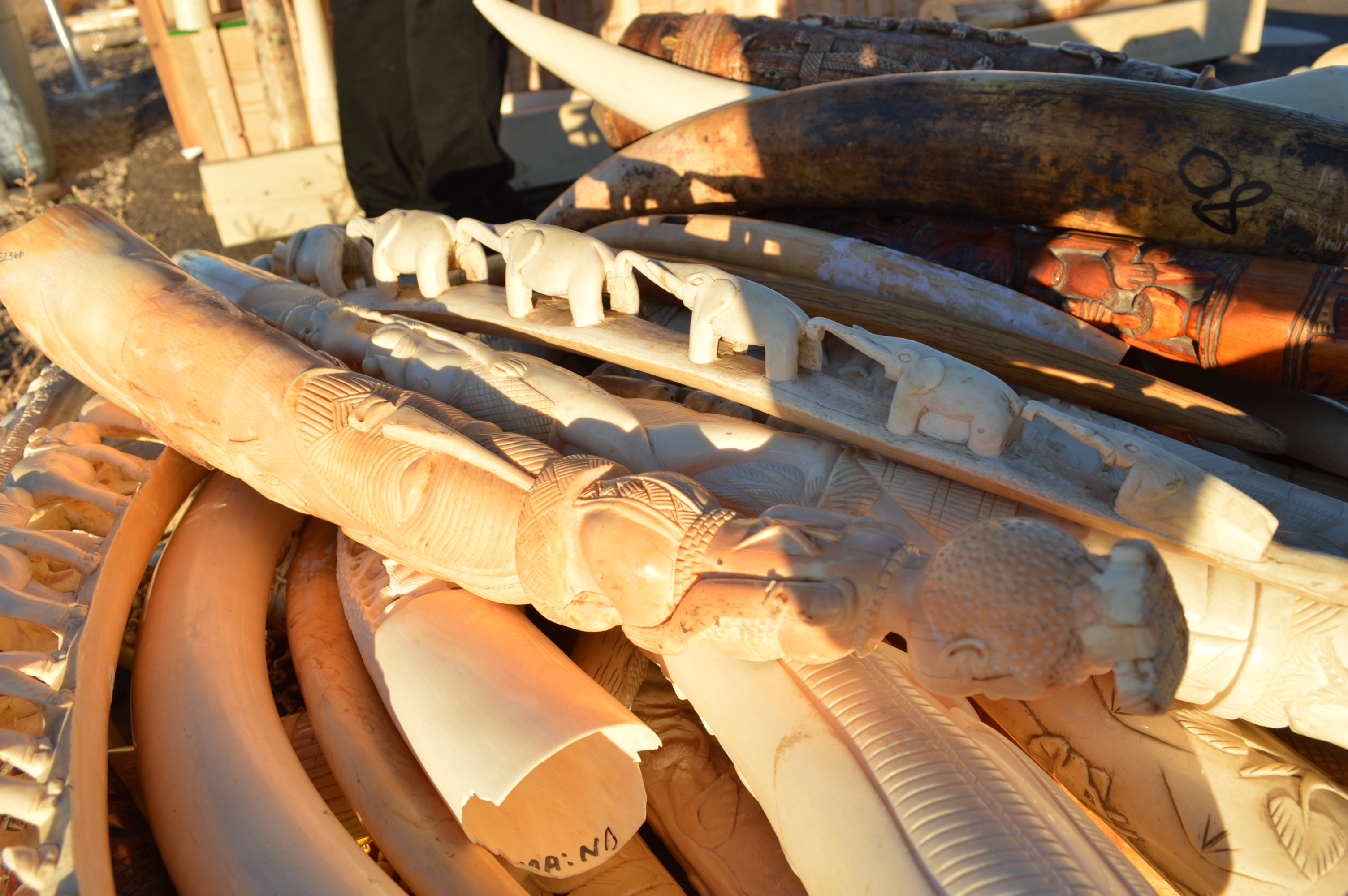 Photo Credit: Ivy Allen / USFWS USFWS ivory crush at Rocky Mountain Arsenal National Wildlife Refuge on November 14, 2013